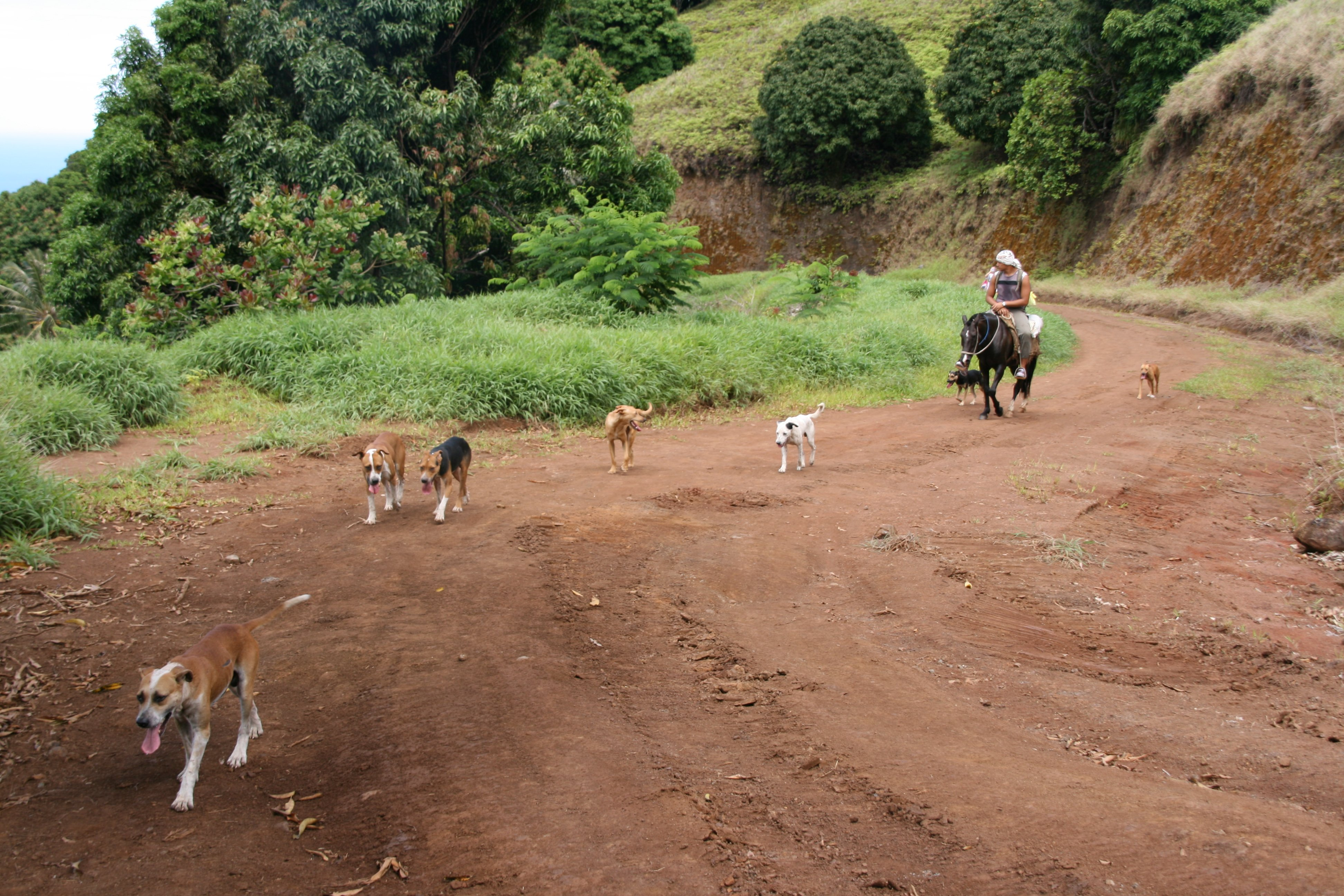 Goats hunter from Omoa village, on the road between Omoa and Hanavave, island of Fatu Iva, Marquesas islands, French Polynesia.